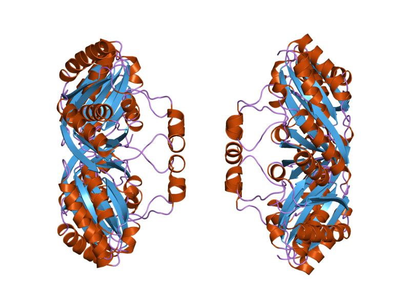 Cartoon representation of the molecular structure of protein registered with 2a1b code.